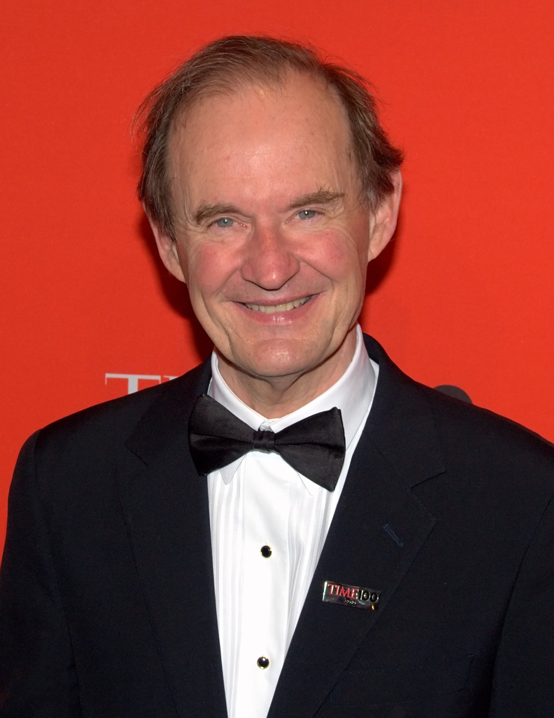 This photo is from the Time 100 Gala - click here to read my posts about some of these amazing people.